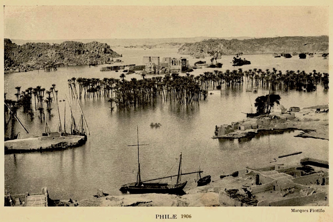 The island of Philae, submerged due to the completion of the Aswan Low Dam (Assouan Dam) - 1906. Island of Bigeh - upper left.